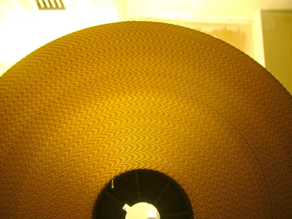 A portion of 35mm film made of polyester seen against the light, the pattern seen is caused by the perforation